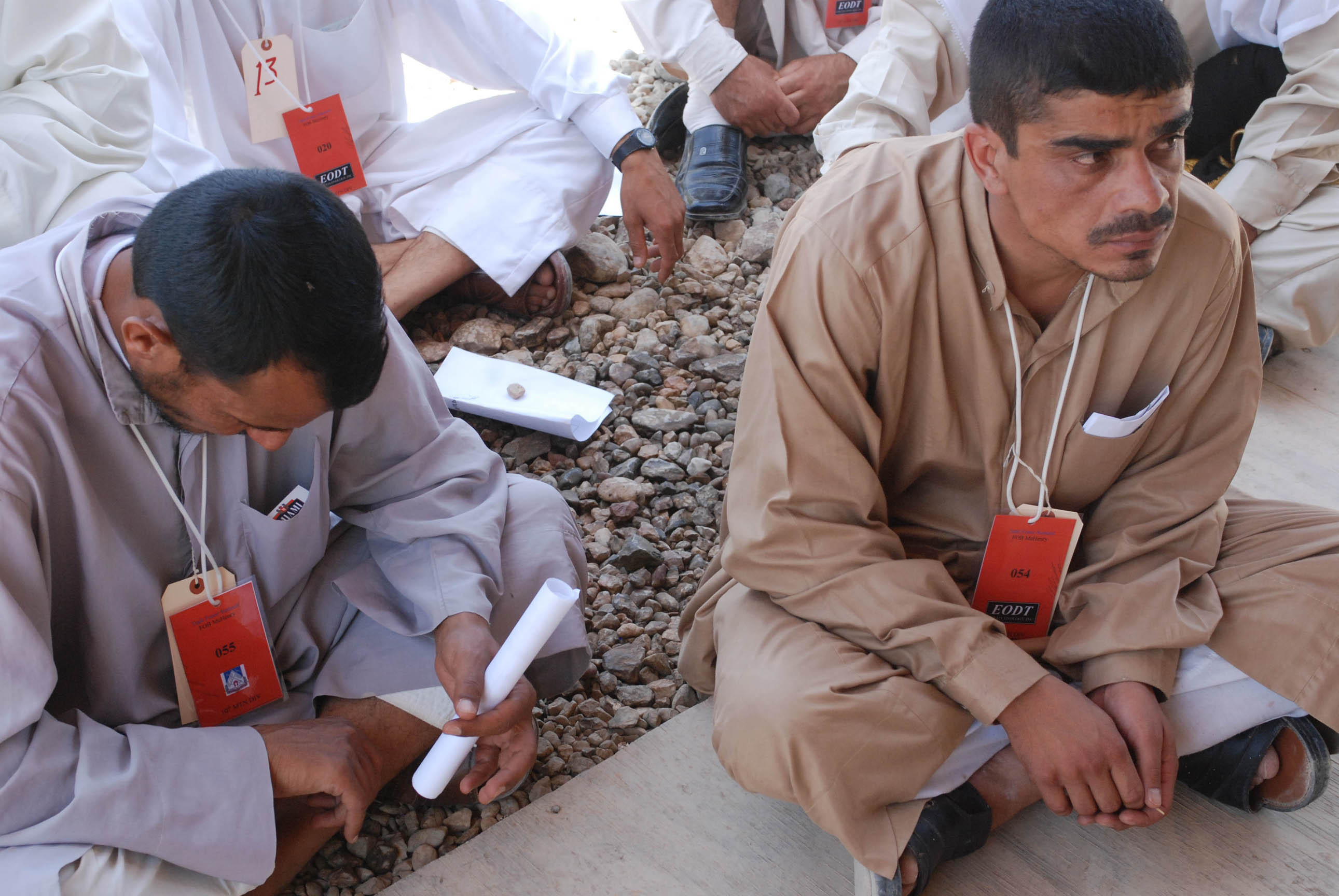 Sixteen reconciliation petitioners returned for phase two processing during Operation Restore Peace VII, June 1, at Forward Operating Base McHenry, Hawijah, Iraq. Candidates were vetted, biometrically registered and entered into a data base. The entire program consists of six steps from beginning to end lasting around 240 days.